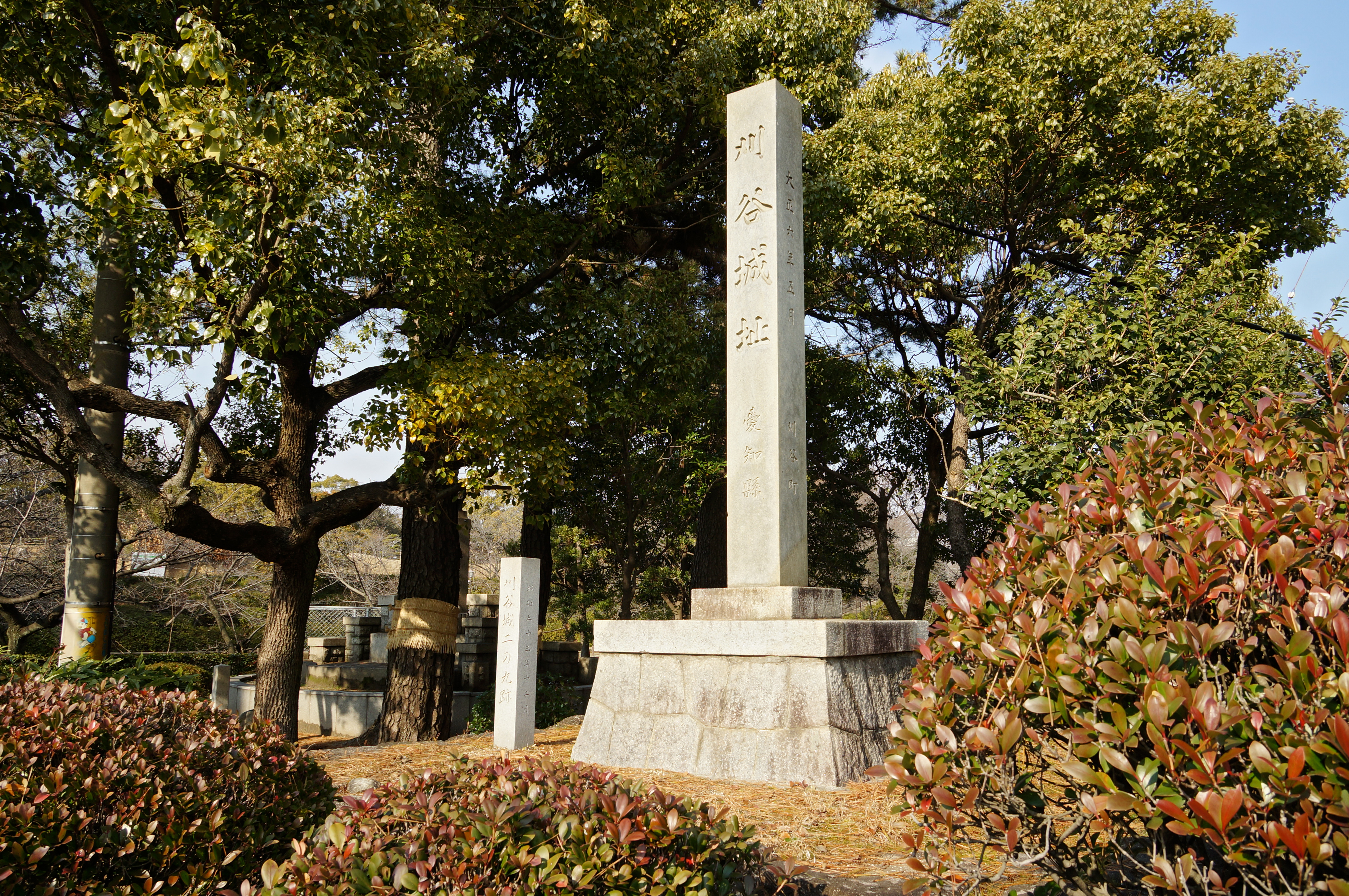 Kijo Park in Kariya, Aichi prefecture, Japan.